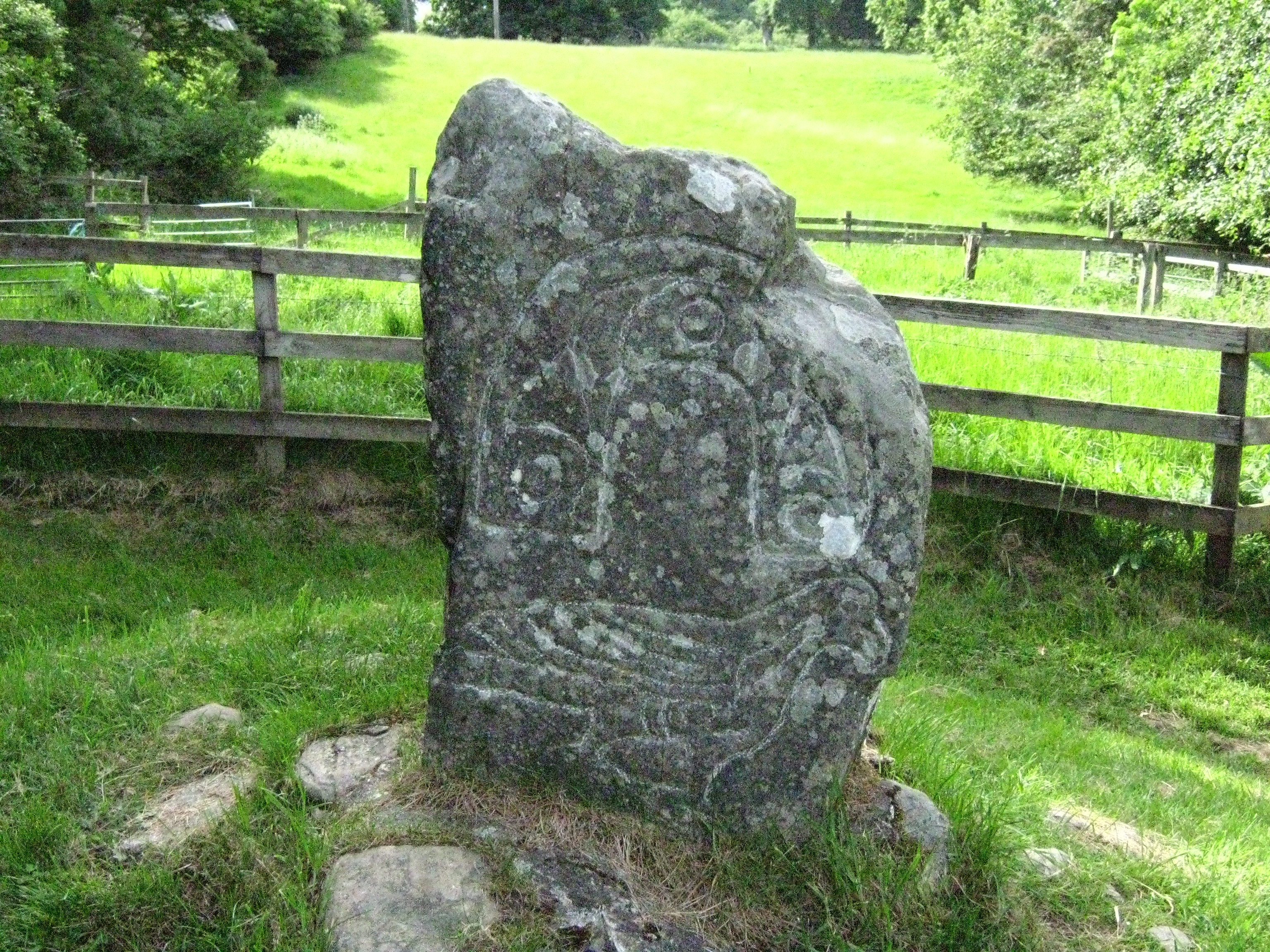 The Strathpeffer Eagle Stone (Clach an Tiompain), is a early Class 1 Pictish stone in Strathpeffer, Scotland.